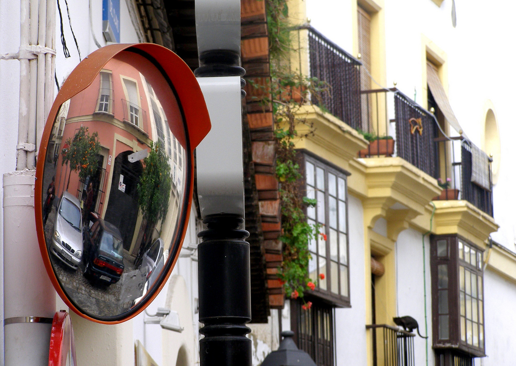 Torneria Street in Jerez de la Frontera (Andalusia, Spain)